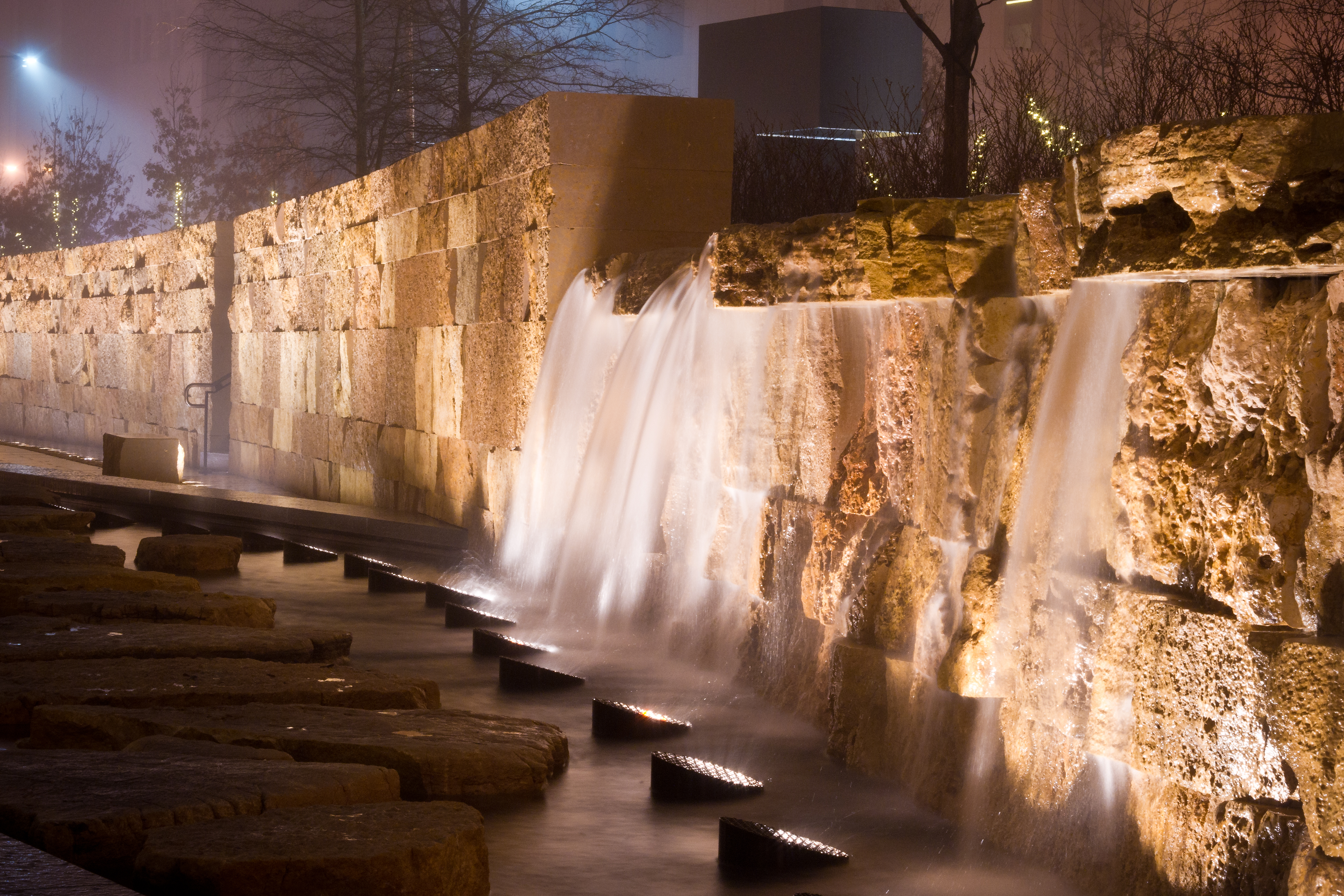 Saint Louis was blanketed in a winter fog one January evening, providing everyone both horrid driving conditions and creative photography options. I spent some time in and around some parks, experimenting with long exposures and diffused lighting. A couple pictures from Citygarden, where the fog's intensity was both amplified and diffused by the urban landscape. Here's a decent long-exposure shot of the waterfall.